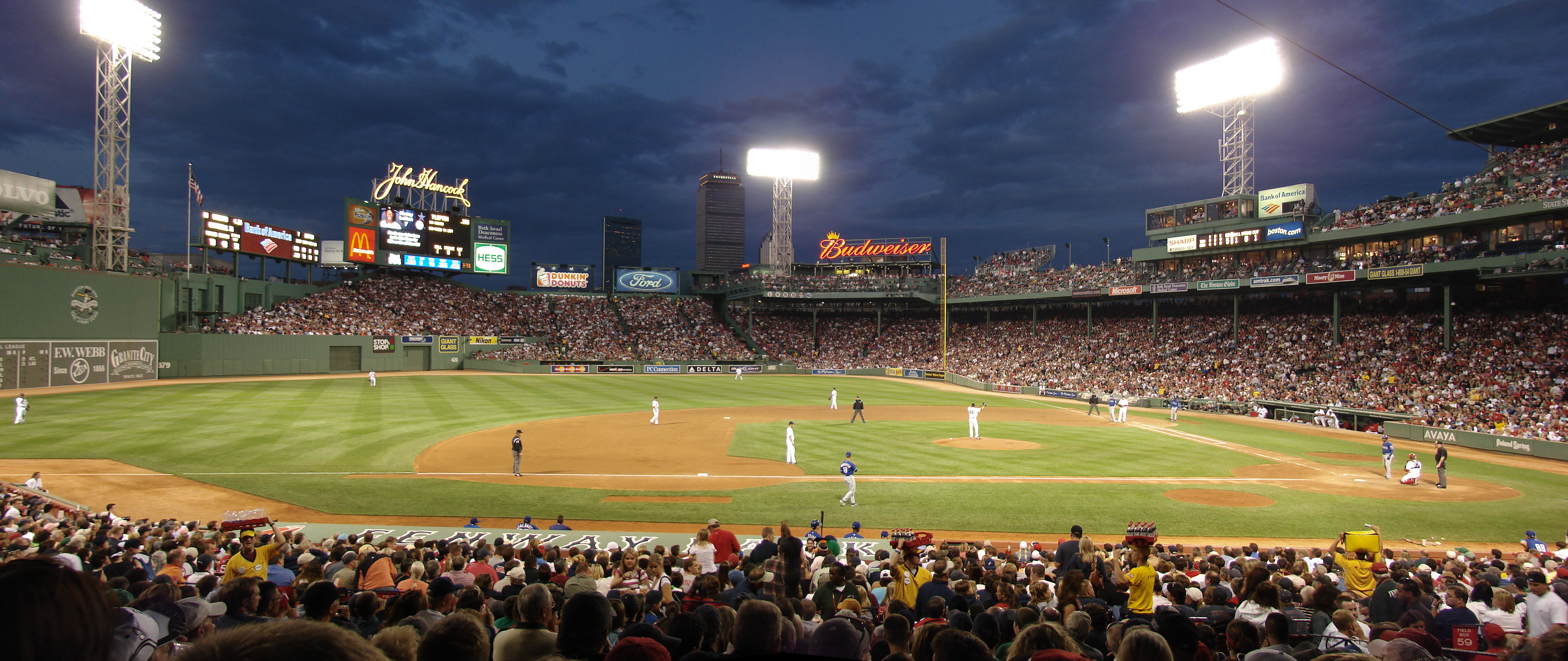 Fenway Park at dusk, taken at 7:38 PM on July 2 2007. The Red Sox were playing the Texas Rangers, and won 7-3.